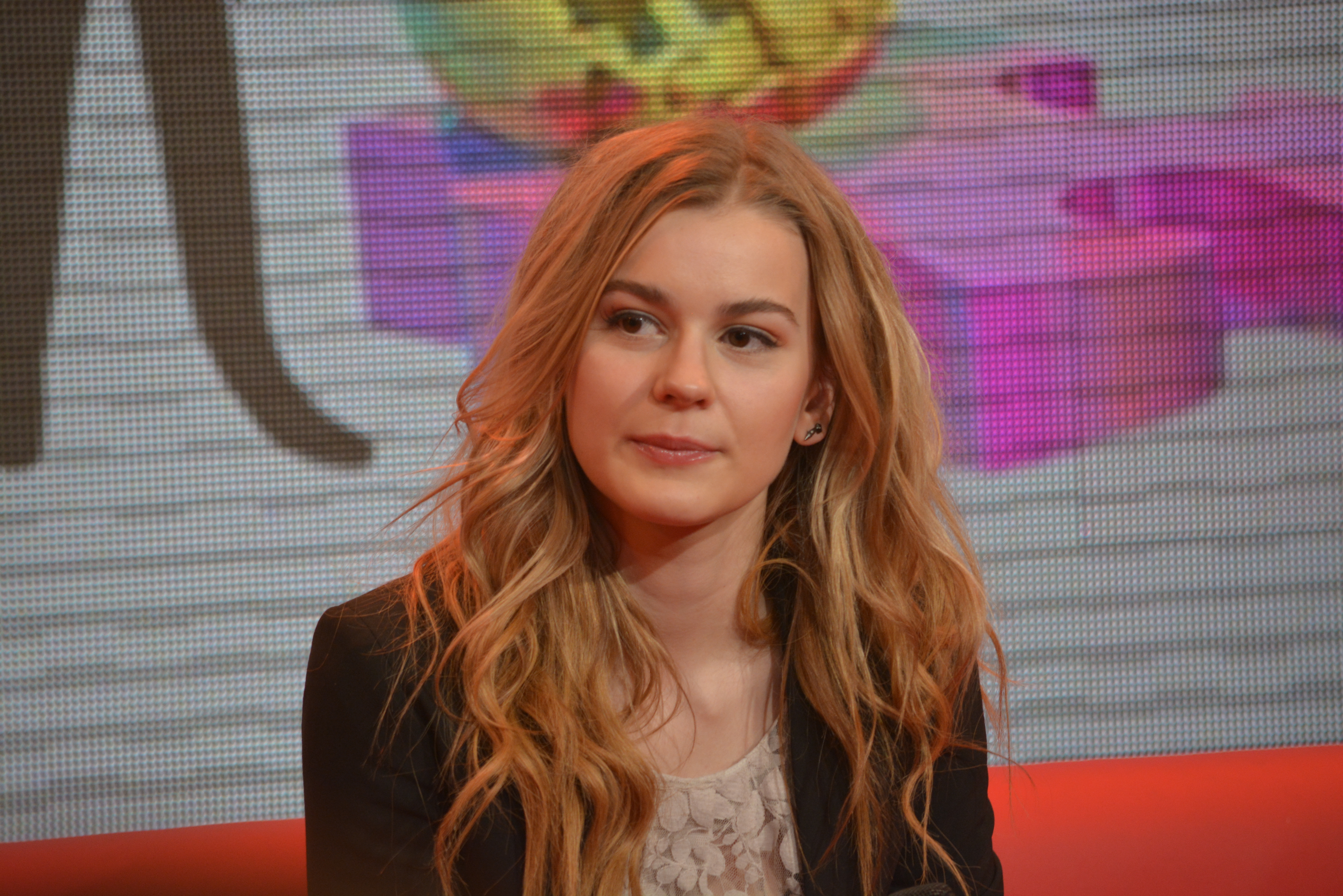 Press conference of Emmelie de Forest at Junior Eurovision 2013